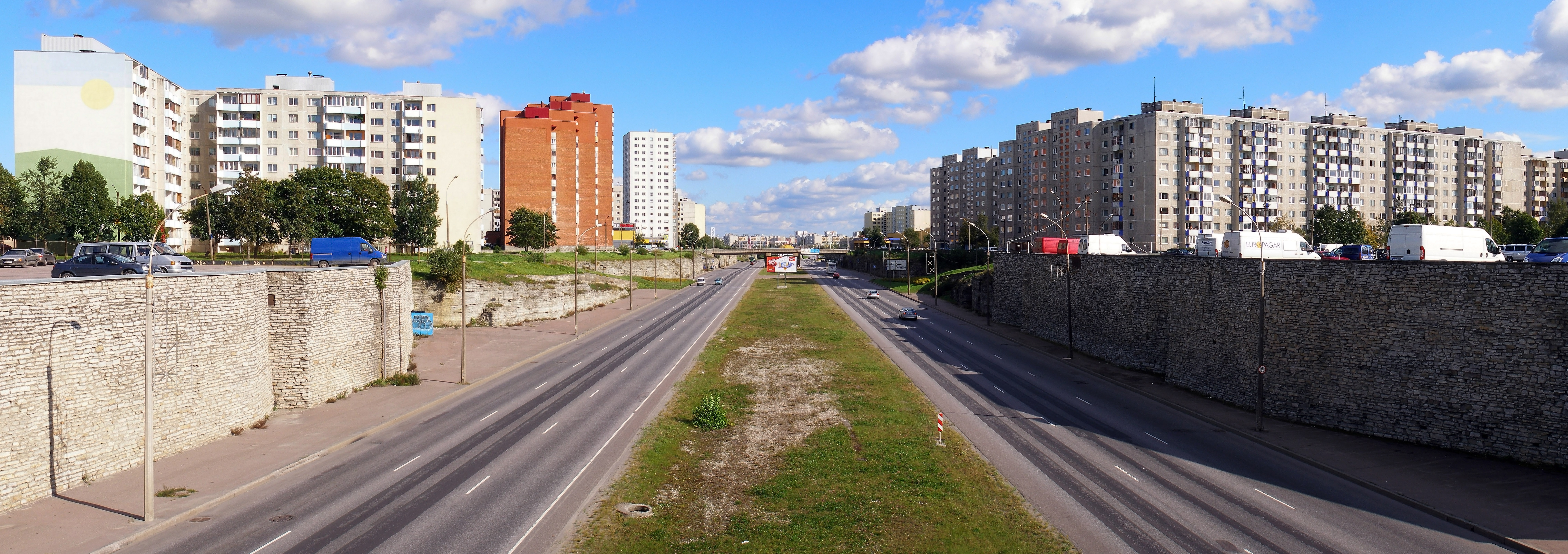 Laagna Road, the main artery of the Lasnamäe district of Tallinn.